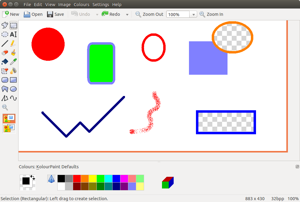 KolourPaint 4.13 screenshot on Ubuntu operation system